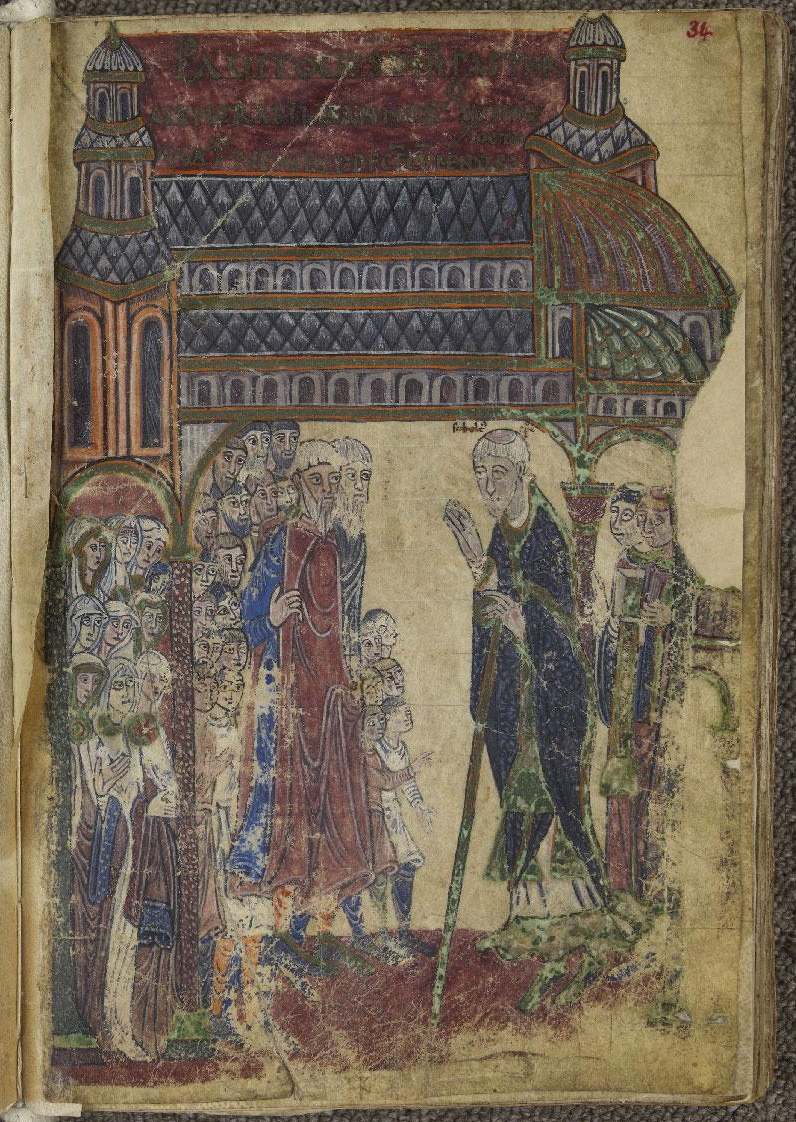 Fulbert of Chartres